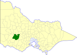 Location of the Shire of Ararat within Victoria.